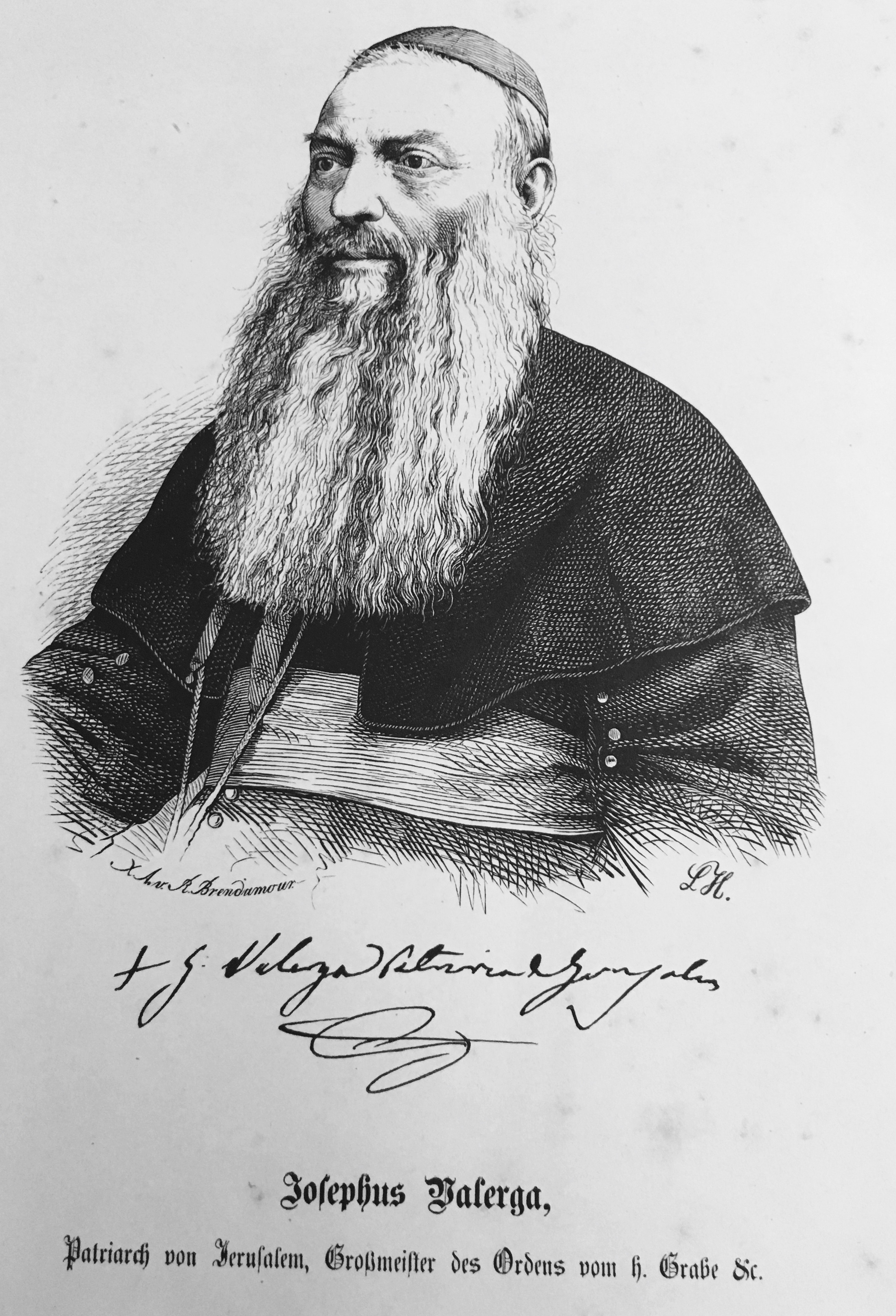 Portrait of Josephus Valerga (Latin Patriarche of Jerusalem) in the book "Der Orden vom heiligen Grabe", from Author Jakob Hermens, Schwann'sche Verlagsbuchhandlung, Köln and Neuss, 1870, 2. Edition